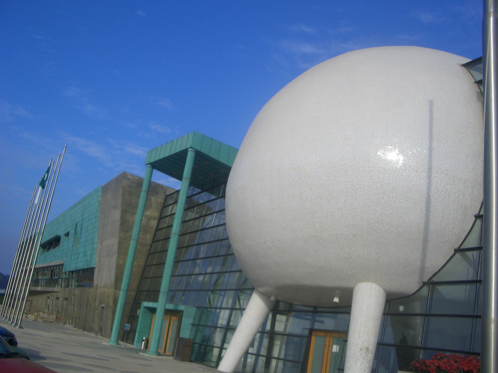 photo taken by 9old9